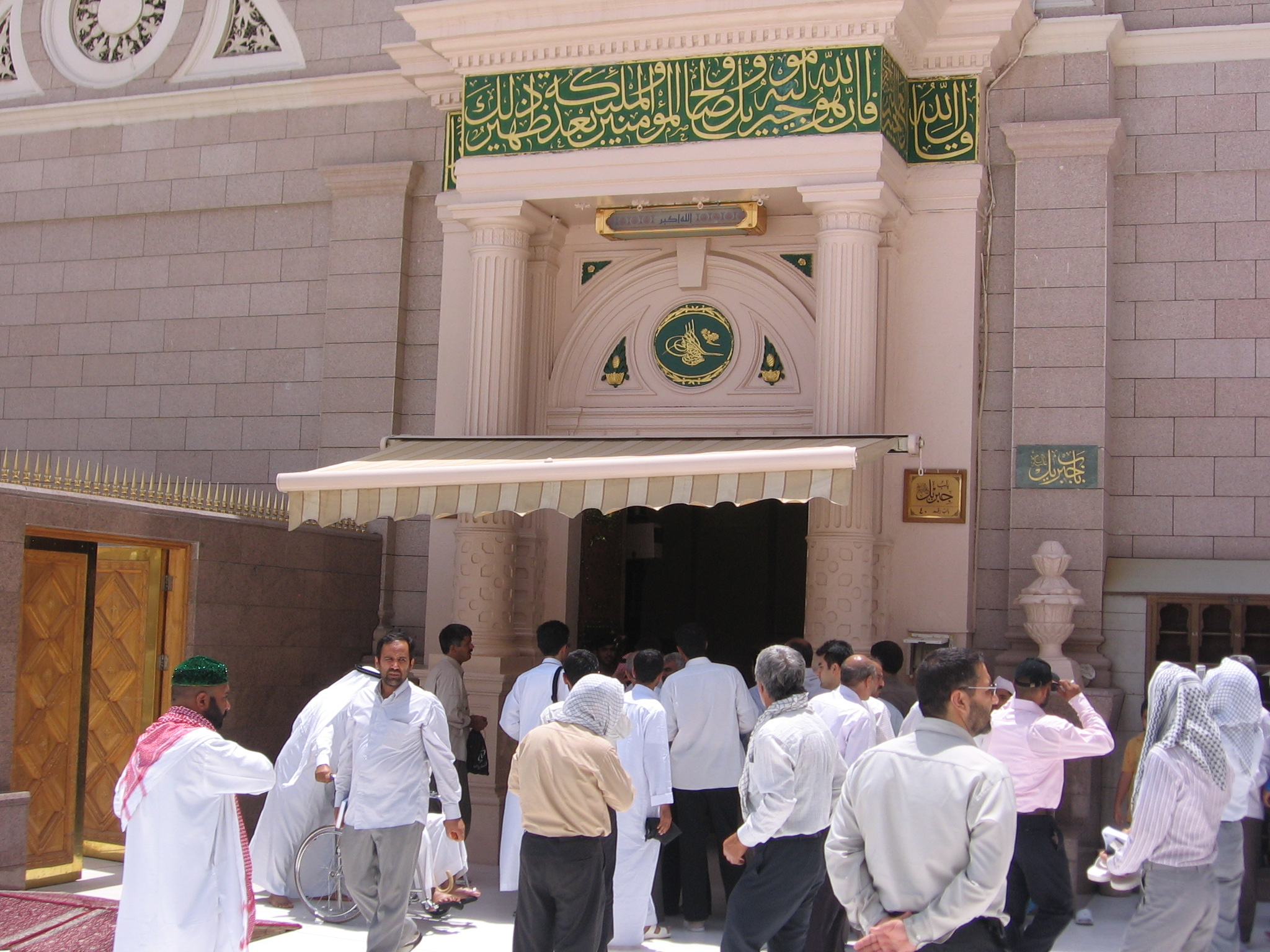 Bab Jibraeel, (Gate of Gabriel), Al-Masjid al-Nabawi in Medina Saudi Arabia